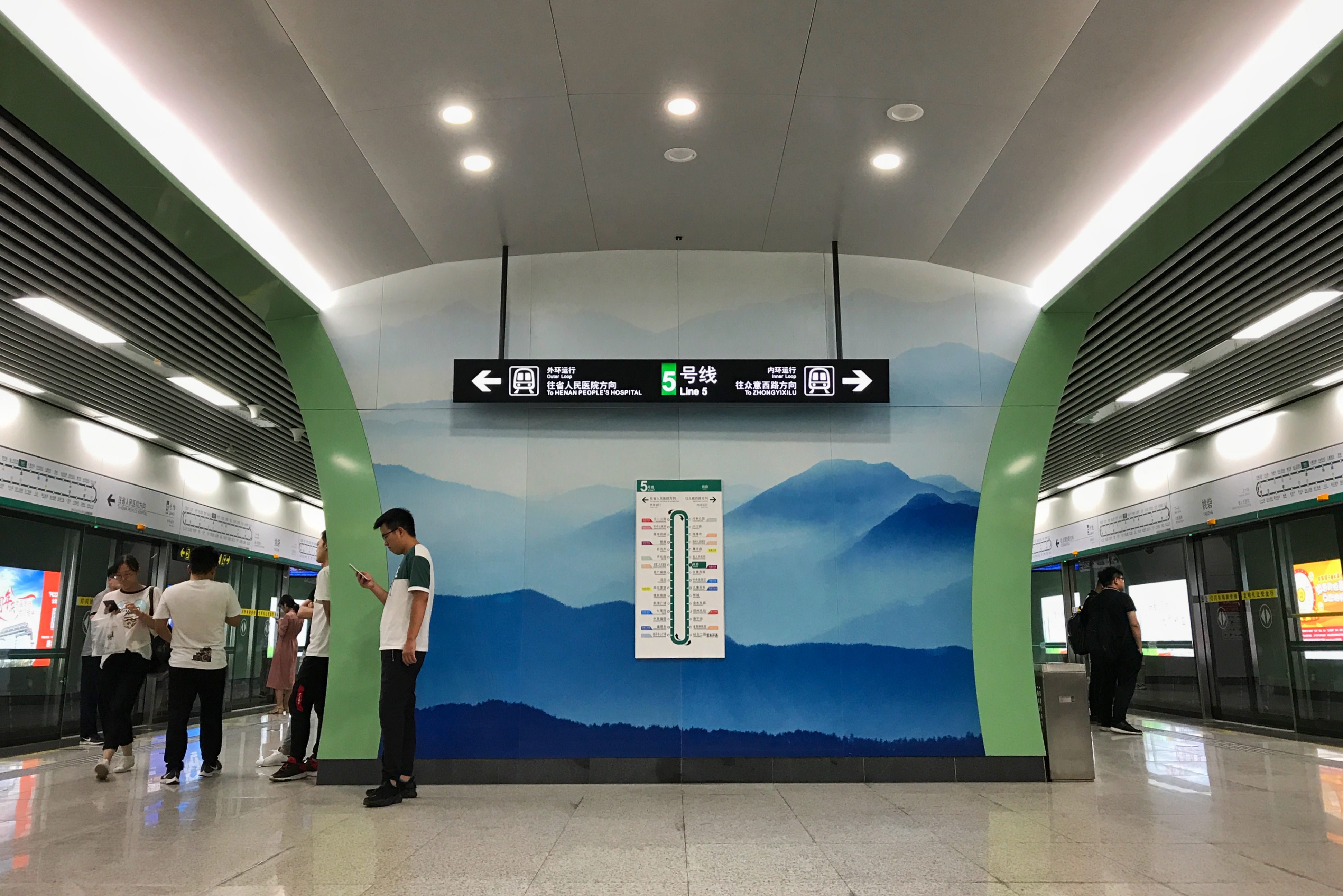 Platforms of Yaozhai Station